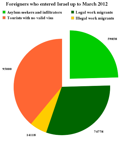 Foreigners who entered Israel until March 2012. These figures include asylum seekers who already left Israel. Based on the table in page 3